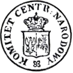 Seal of theCentral National Committee